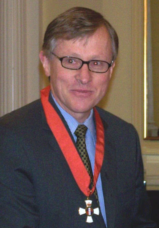 Richard Beasley, after his investiture as CNZM, for services to medical research, in particular asthma, at Government House, Wellington, on 3 September 2008.